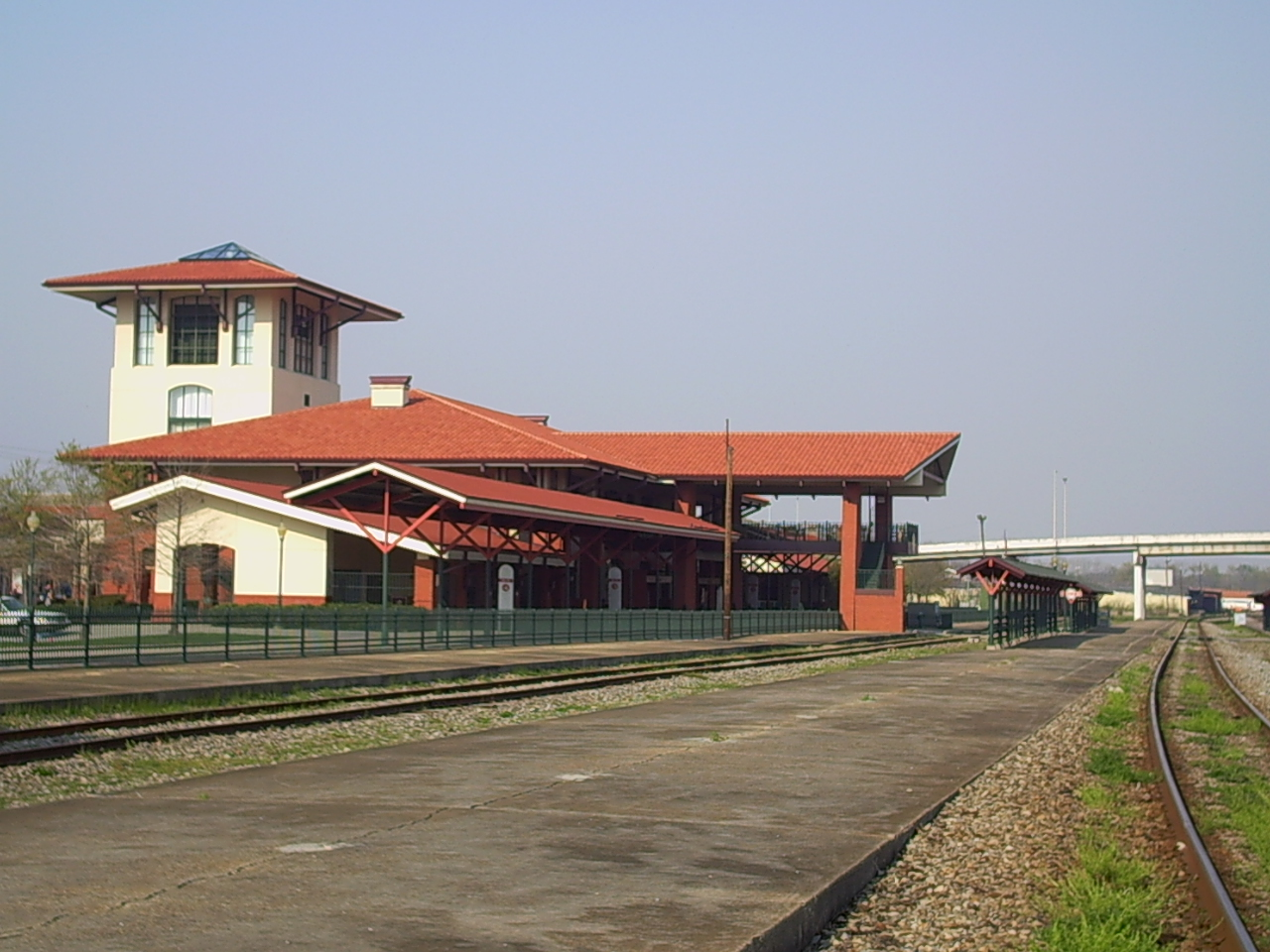 Meridian's Union Station as seen from the tracks